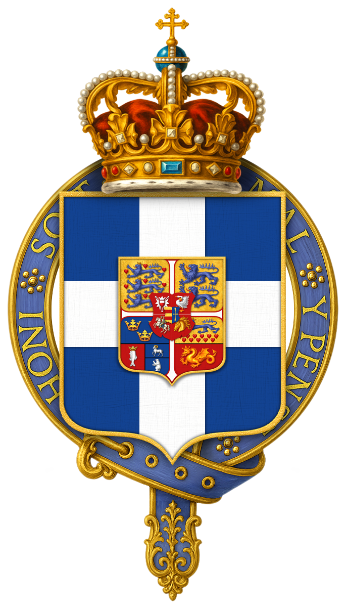 Gartered arms of Paul, King of Greece